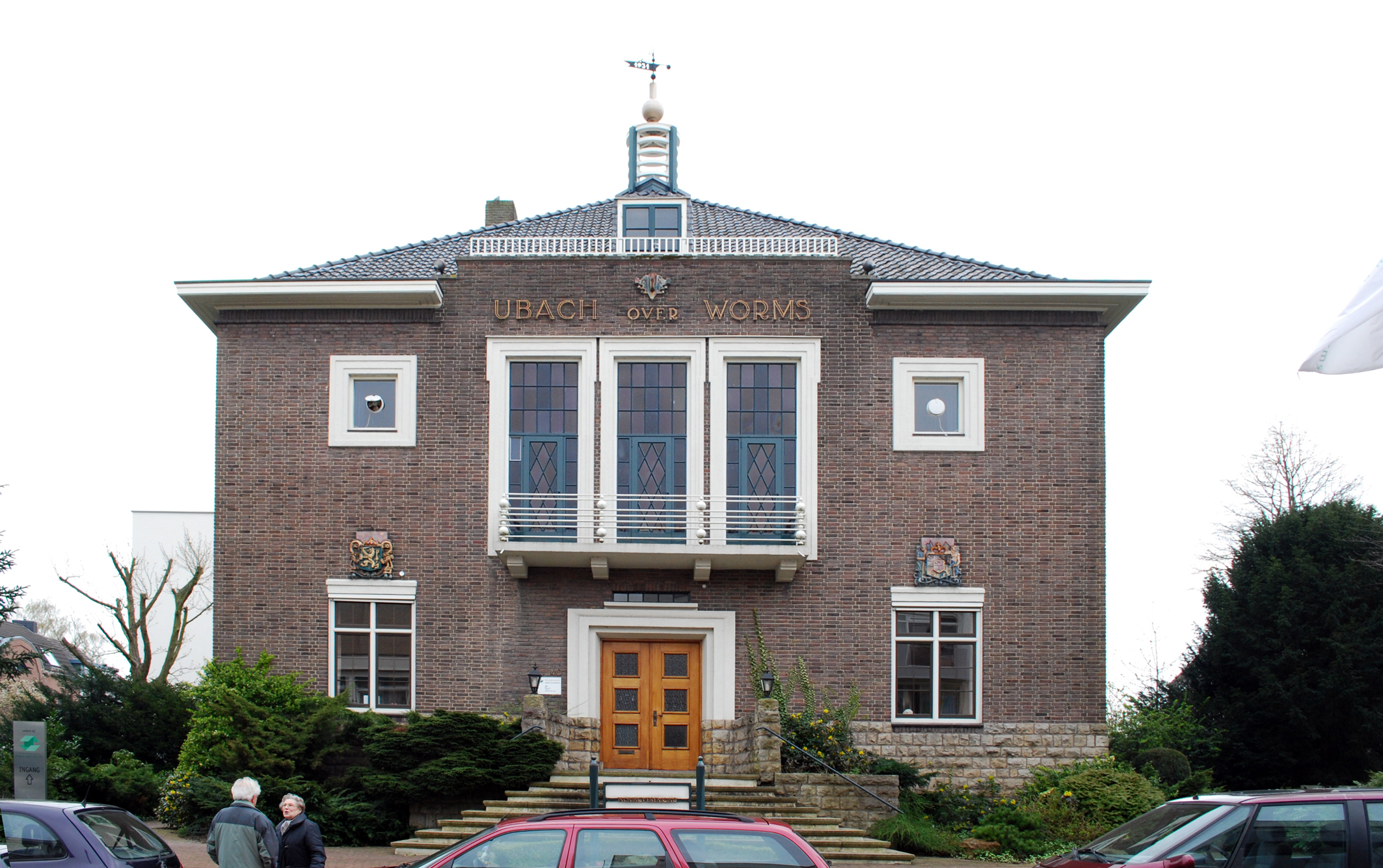 The town hall of Ubach over Worms, at Hovenstraat 140, 6374 HG Landgraaf, the Netherlands, which came into use in 1931. It was a creation of the architect Jan Beersma, who worked in the Laura & Company colliery at Eygelshoven (Limburg). In 1982, the building became redundant because Ubach over Worms was incorporated into the new municipality of Landgraaf. Since then, the building has been home to the Ubach over Worms Housing Association.